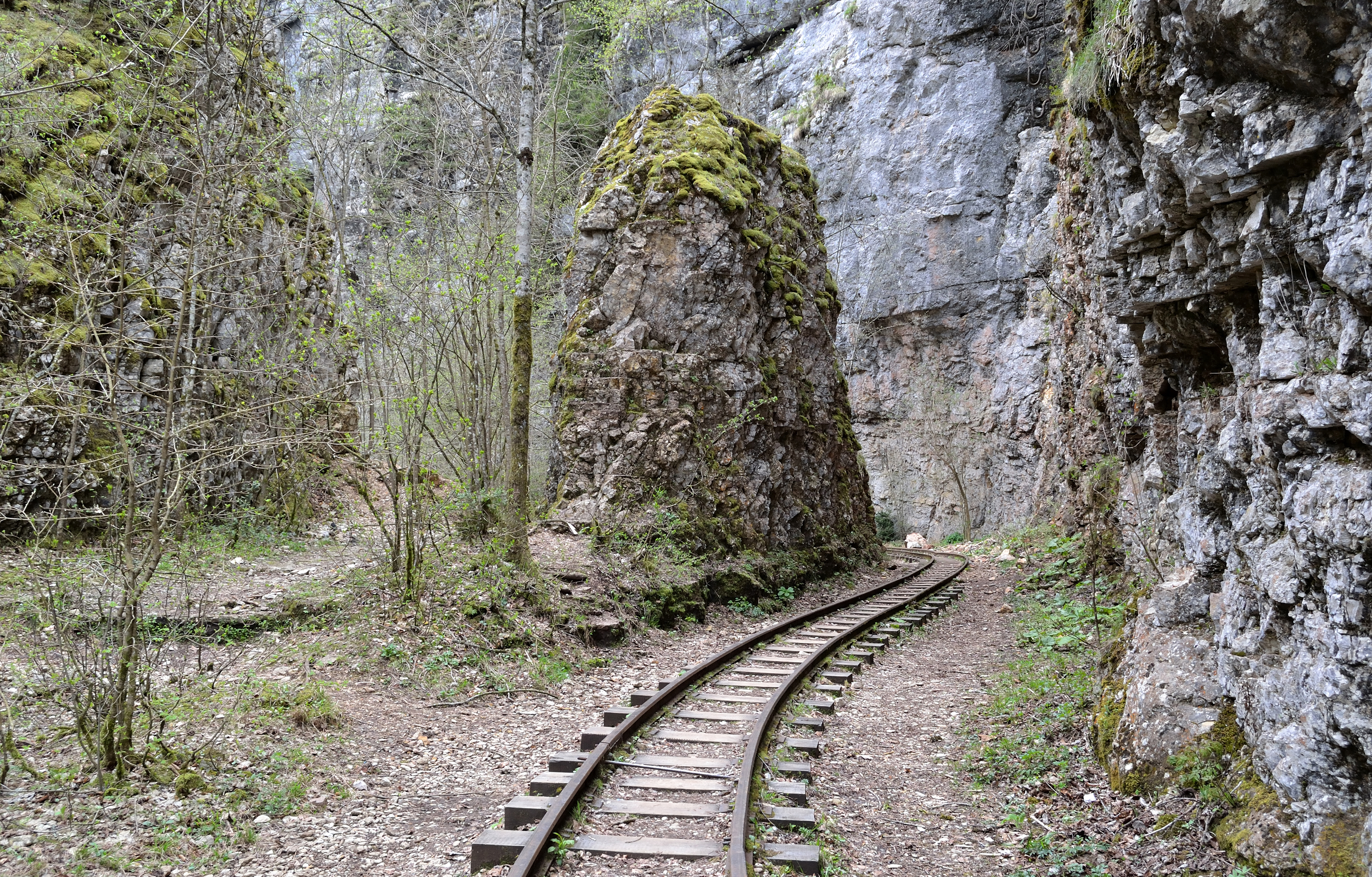 This is a narrow gauge railway Apsheronskaya, stage in Guamsky canyon.